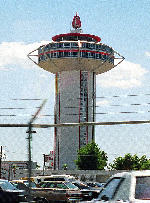 Landmark Hotel and Casino in Las Vegas, Nevada, United States.